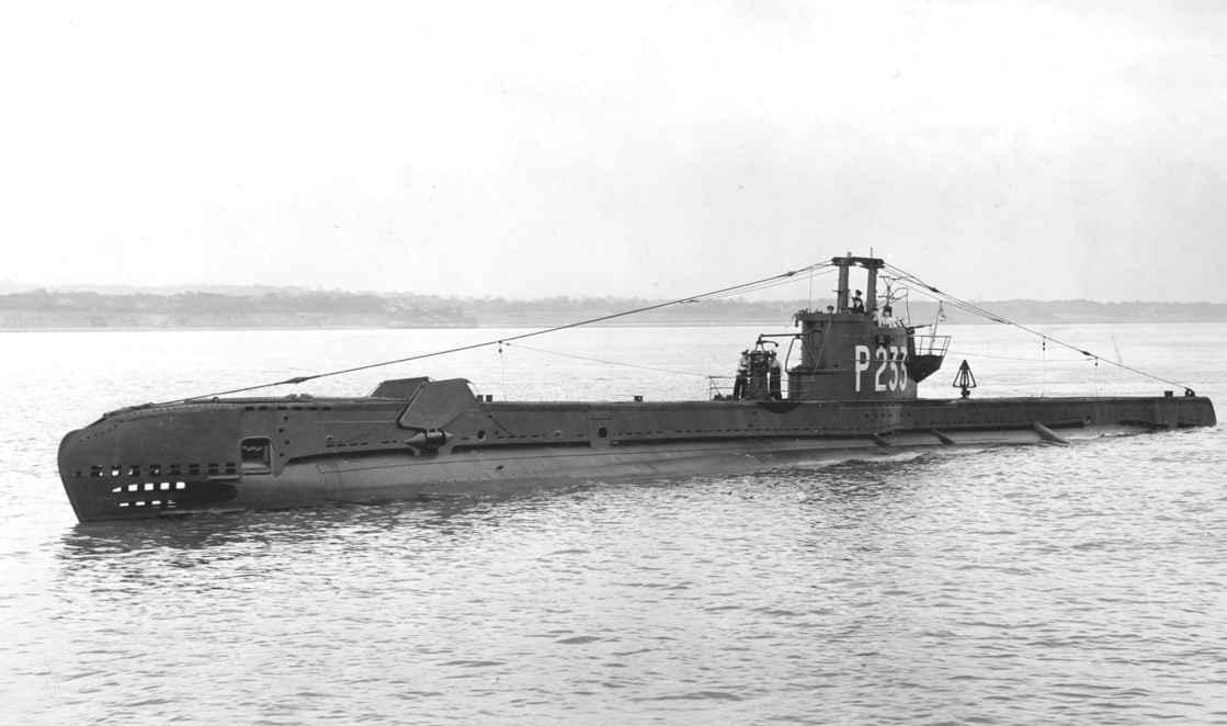 HMS Storm (P233) Royal Navy S class submarine. Photograph taken before vessel's transfer to Pacific theatre of operations